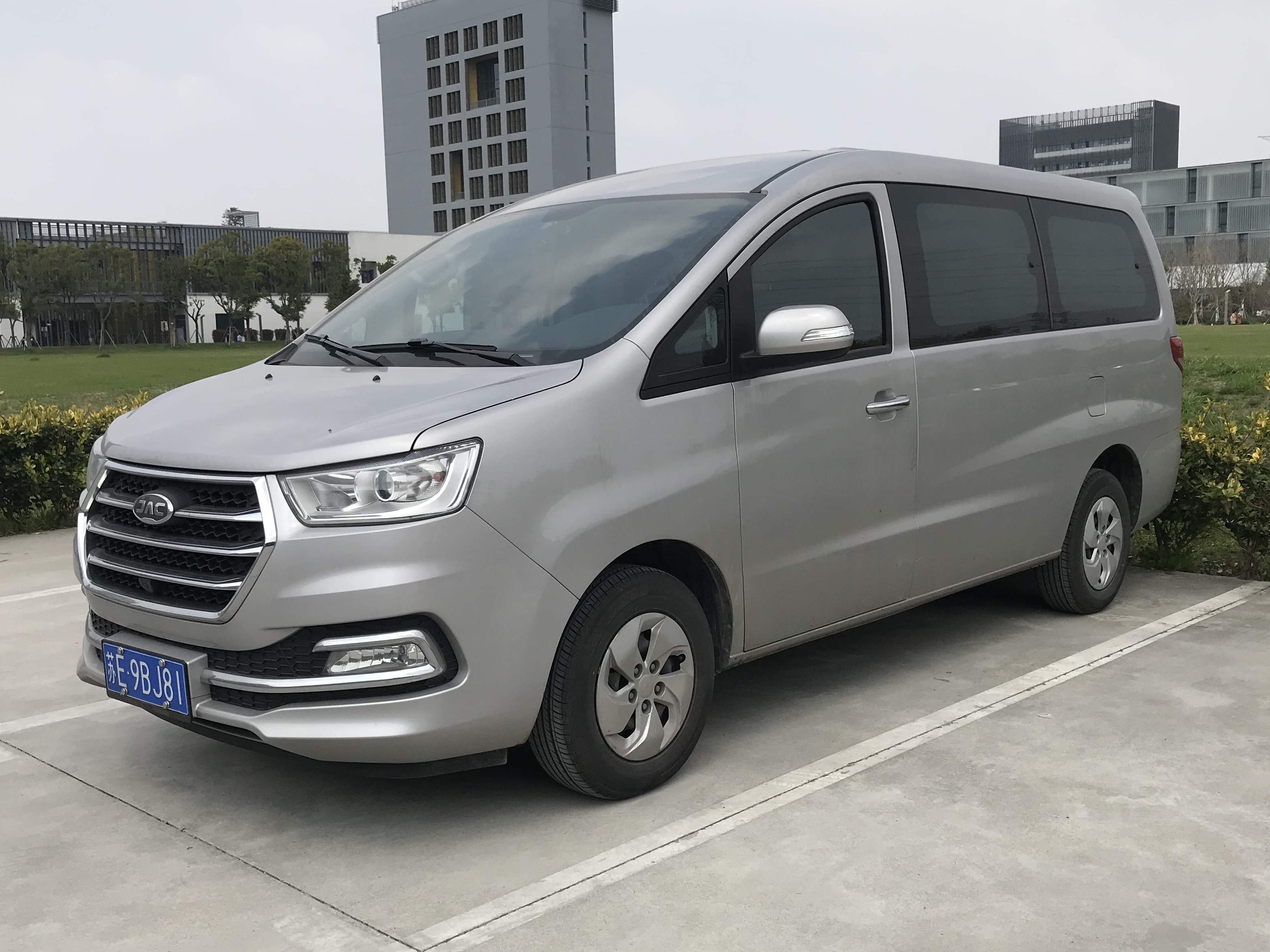 Refine Ruifeng M4